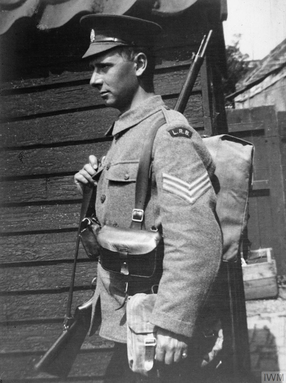 1/5 Battalion, London Regiment (London Rifle Brigade) Sgt Needell enlisted in April 1909. He was killed in action, aged 28, at Wancourt on 2 May 1917. Sgt Needell is buried at Hibers Trench Cemetery. Photograph presented by his wife, Mrs Needell of Teddington. Faces of the First World War Find out more about this First World War Centenary project at This image is from IWM Collections. The Museum released this image on a custom licence - IWM Non-Commercial license. However where the photograph has no known author, these are public domain under the 70 rule and where they were owned by the Ministry of Information, any other government department or agency, taken by a member of the military during their service or by a photographer commissioned by the services, these are now out of copyright restriction.